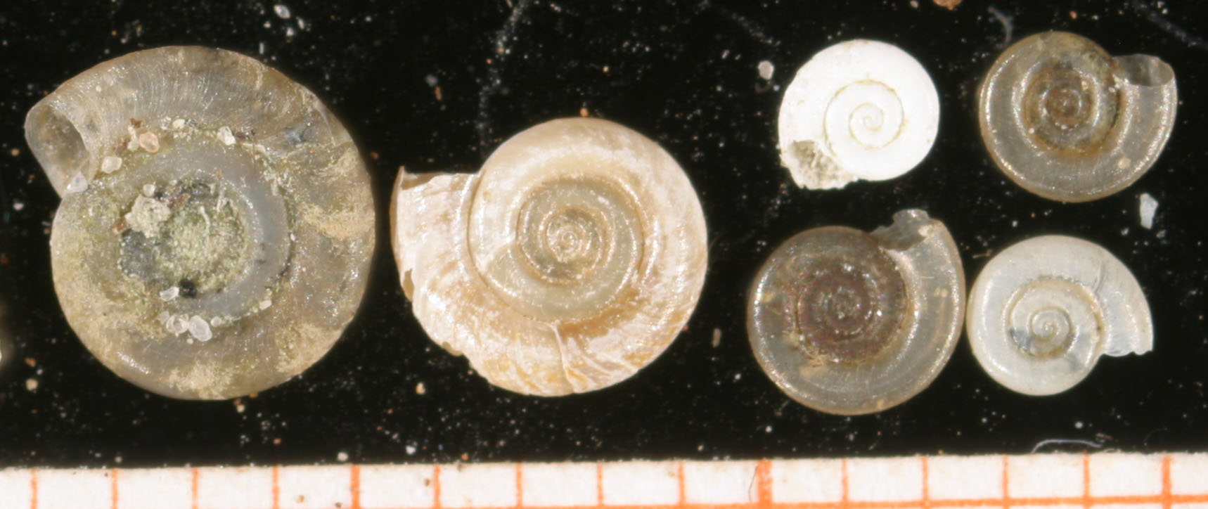 Photo of Anisus vorticulus. Scale in mm. Locality: Schleswig-Holstein, Selenter See, lake margin. Date: May-1974.